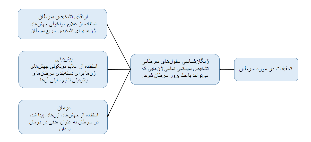 goals_of_oncogenomics